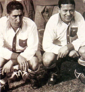 Quilmes players Sandoval and Arrillaga in 1931